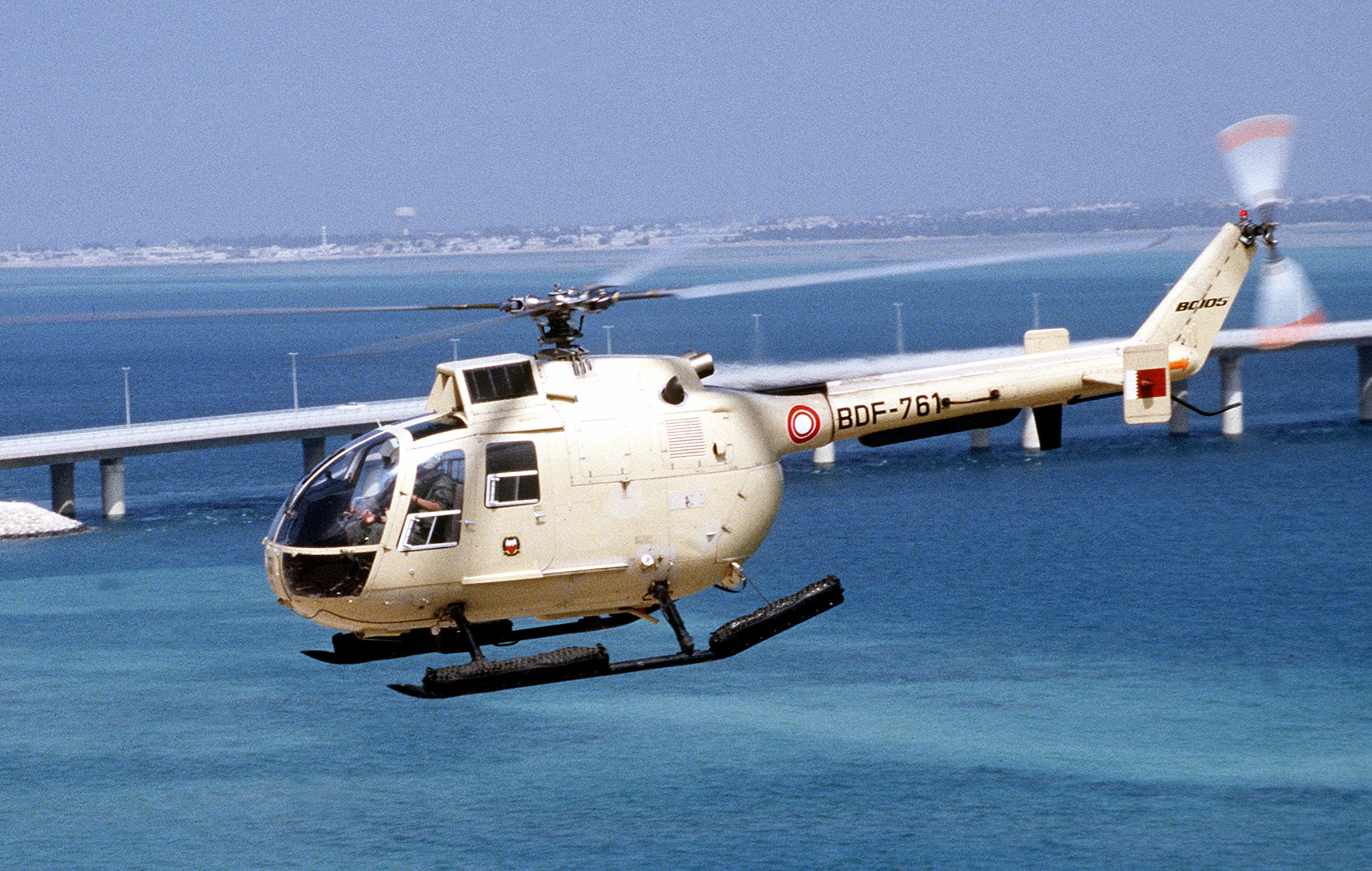 A BO-105 helicopter of Bahrain flies inland near a causeway in the aftermath of Operation Desert Storm.